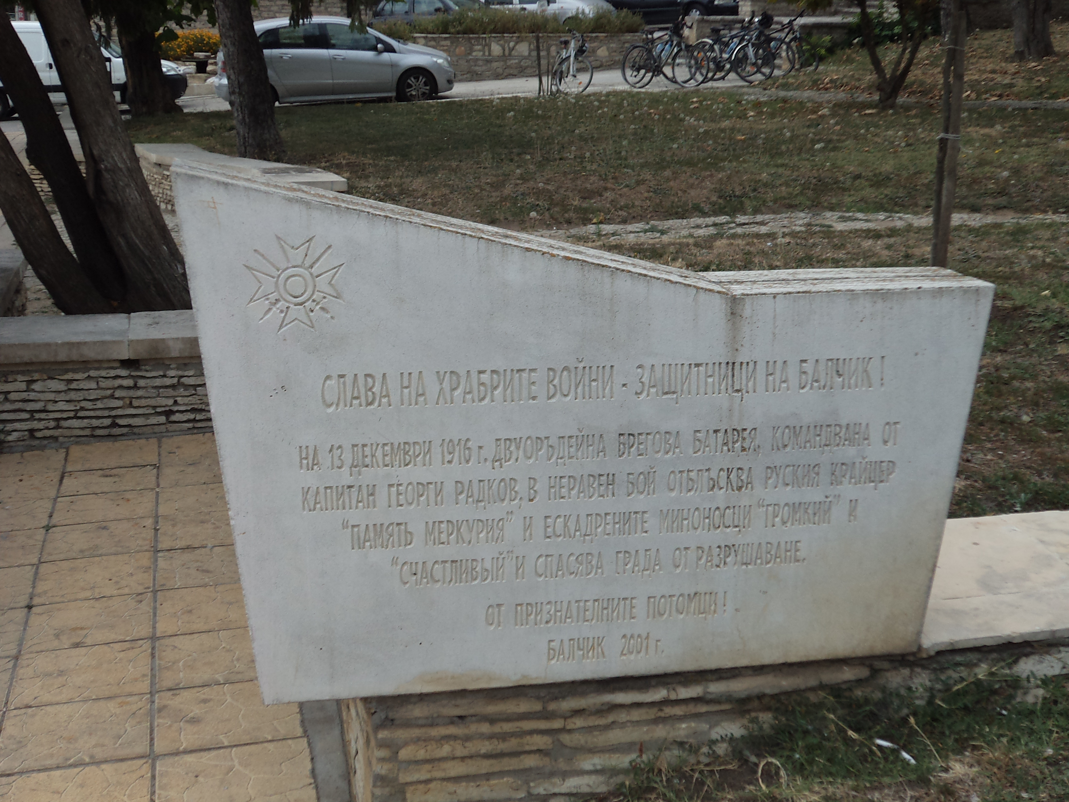 The plaque in honour of the bulgarian soldiers from naval artillery